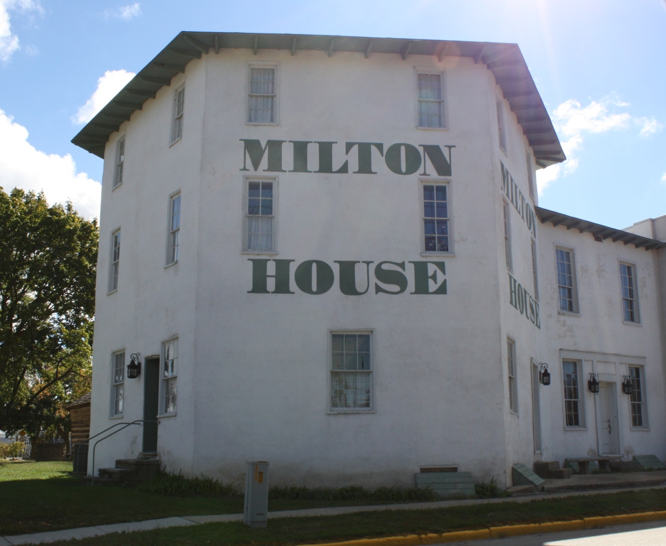 The Milton House, a house on the Underground Railroad along Wisconsin Highway 26. It is listed on the National Register of Historic Places and was declared a National Historic Landmark.